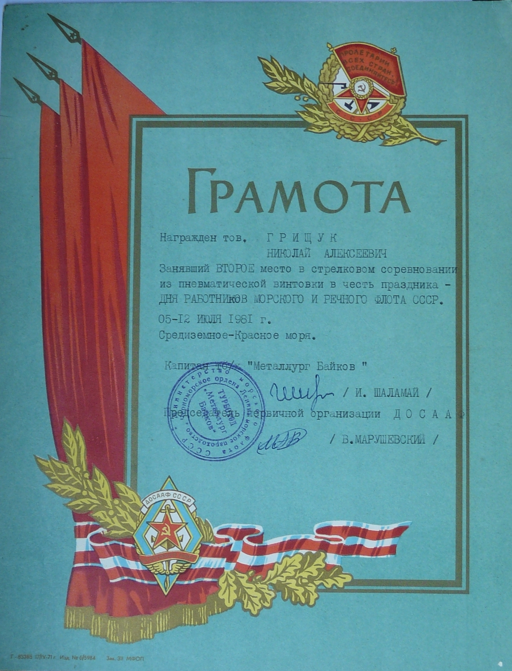 The diploma for the second place in the competition in rifle shooting on the Soviet ship Metallurg Baykov in July 1981. It was a part of the military training for the Soviet seamen and it was carried out on each Soviet transport ships in various times. It was the first celebration of the Day of Sea and River Fleet Workers in the USSR.